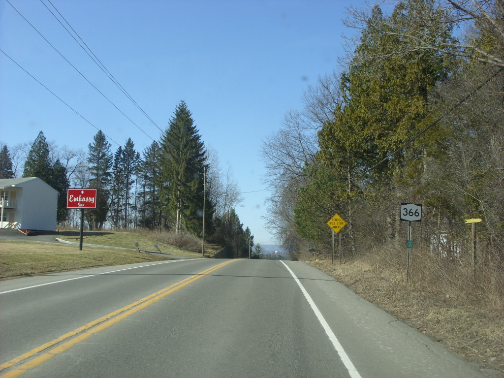 New York State Route 366 passing the Embassy Inn near Turkey Hill Road (CR 161) in Dryden, New York.